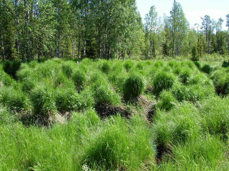 When wet meadows are abandoned in northern Scandinavia they are often invaded by Carex nigra ssp. juncella, forming what is locally called "Russian heads".